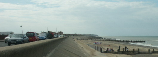 The seafront at Walcott with the B1159 alongside. This image was cropped from Image:Walcott.jpg by Katy Walters